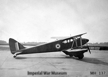 de Havilland DH.90 Dragonfly, British civilian biplane